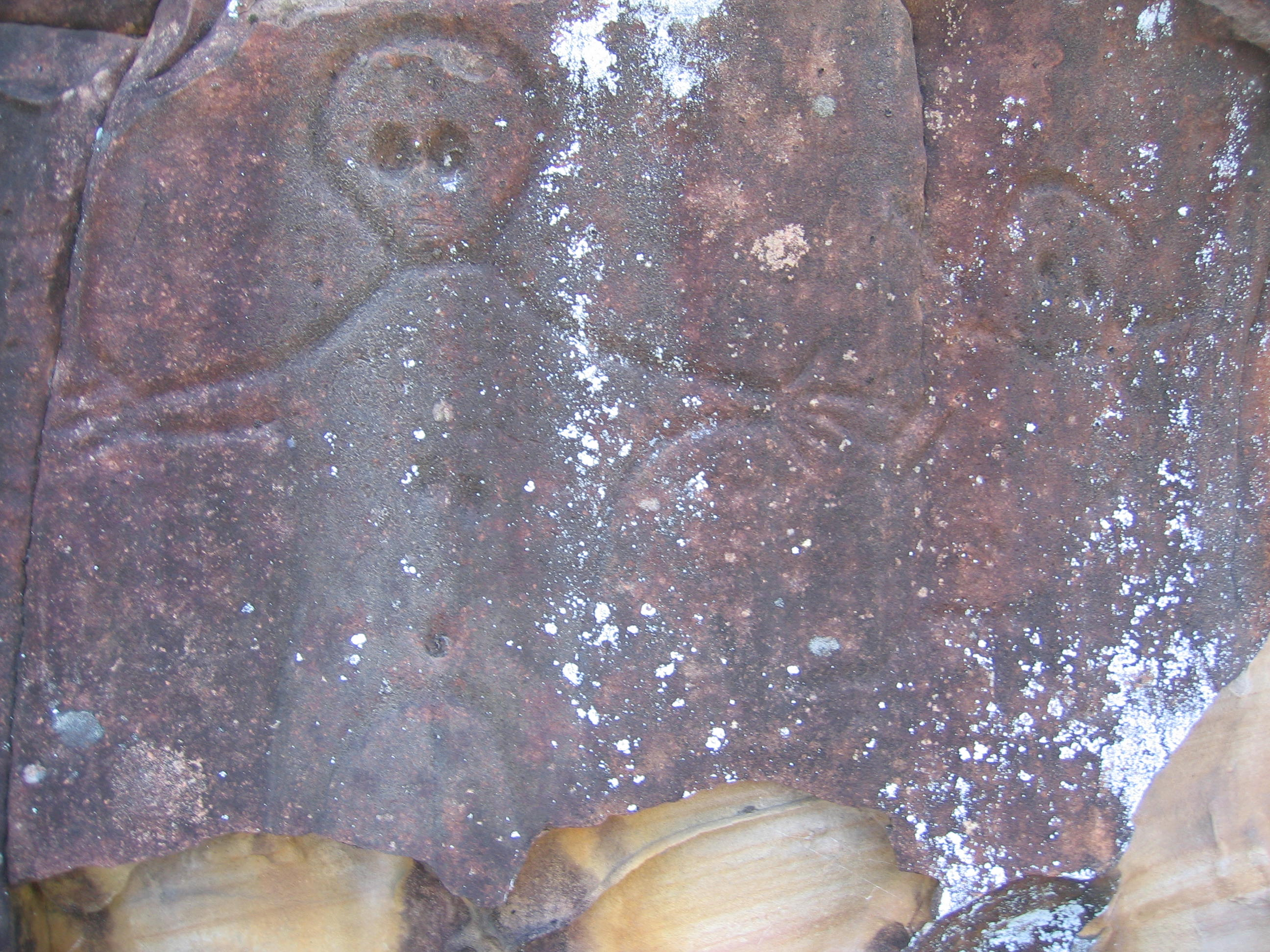 Aboriginal rock art on Spectacle Island - Hawkesbury River